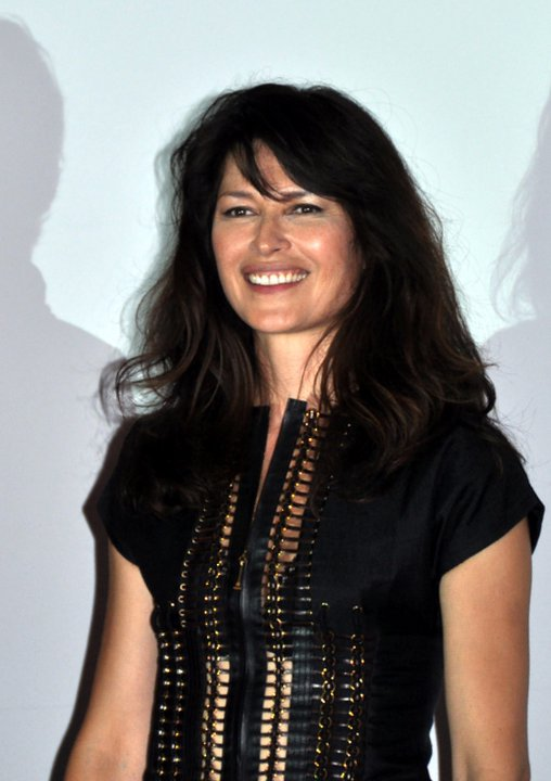 Karina Lombard at the Cabourg Film Festival